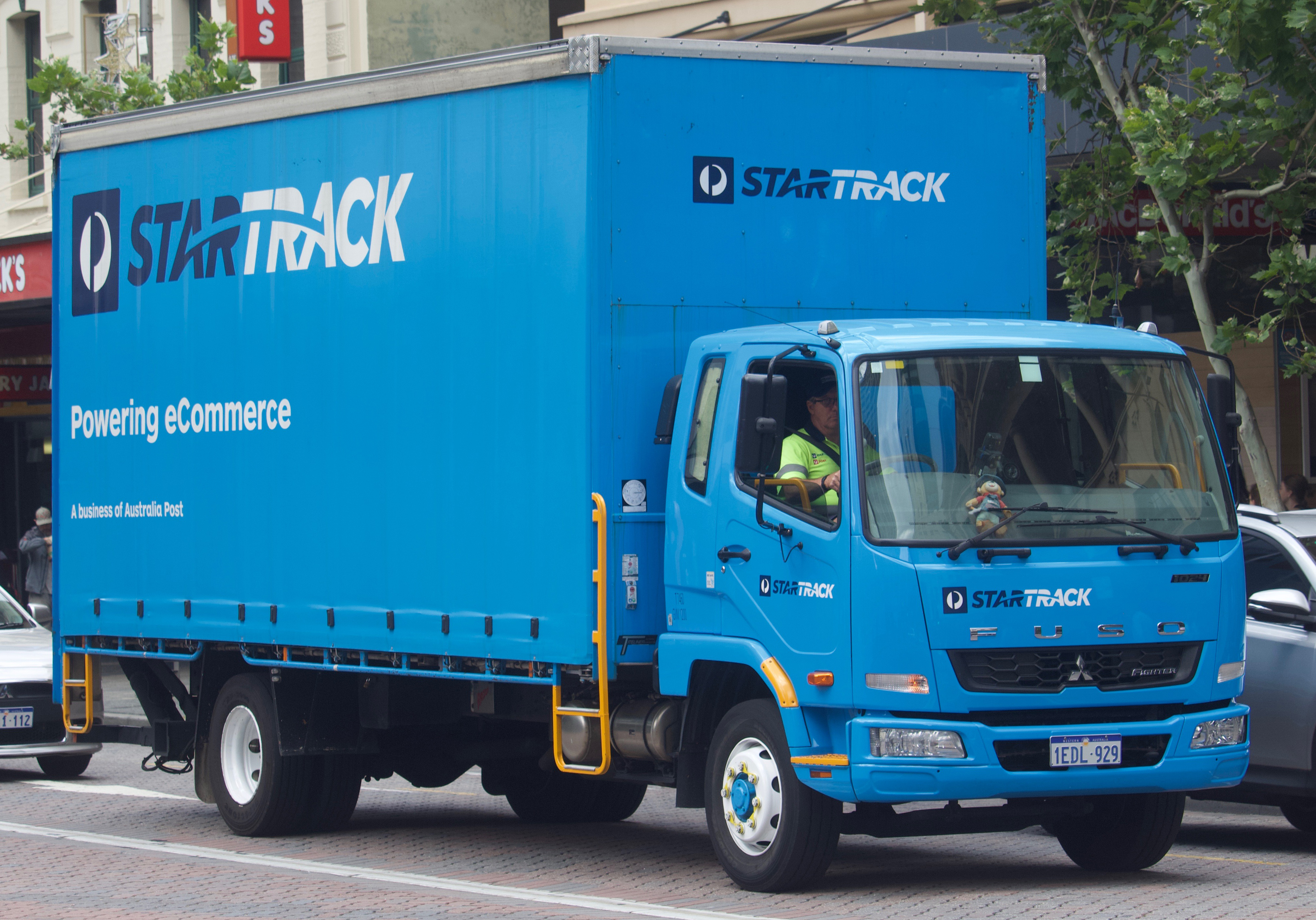 2013 Mitsubishi Fuso Fighter Truck manual StarTrack. Photographed in Perth.